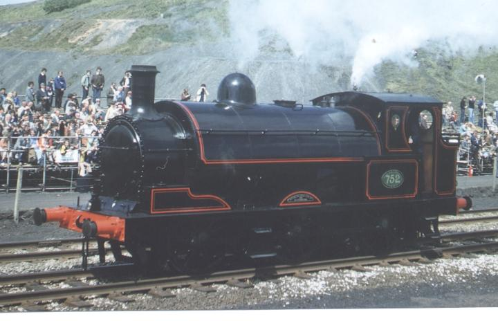 L&YR Aspinall 0-6-0ST No. 752 in LYR freight colours at Rainhill, Lancs, 1980